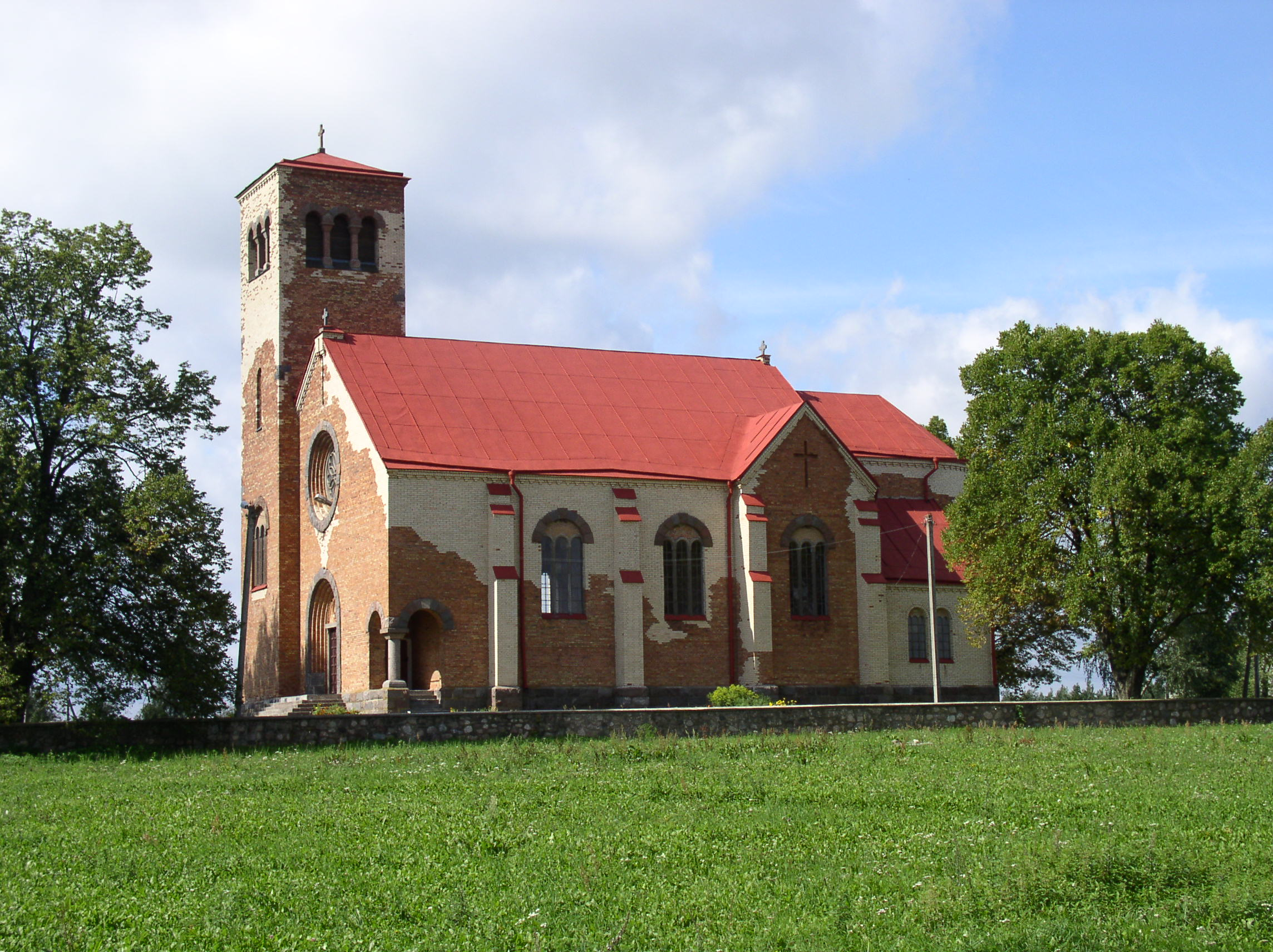 Church of the Sacred Heart of Jesus. Khotaw, Belarus.